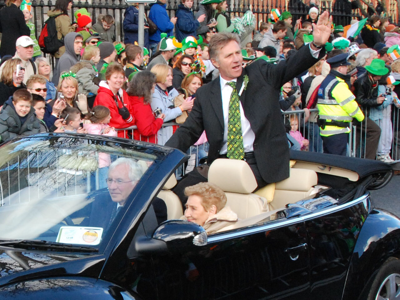 Image of Eamonn Coghlan